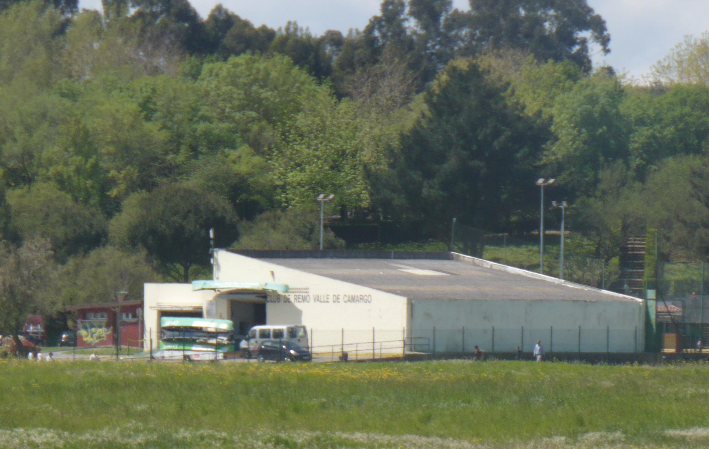 Valle de Camargo Rowing Club building in Parayas (Camargu, Cantabria)